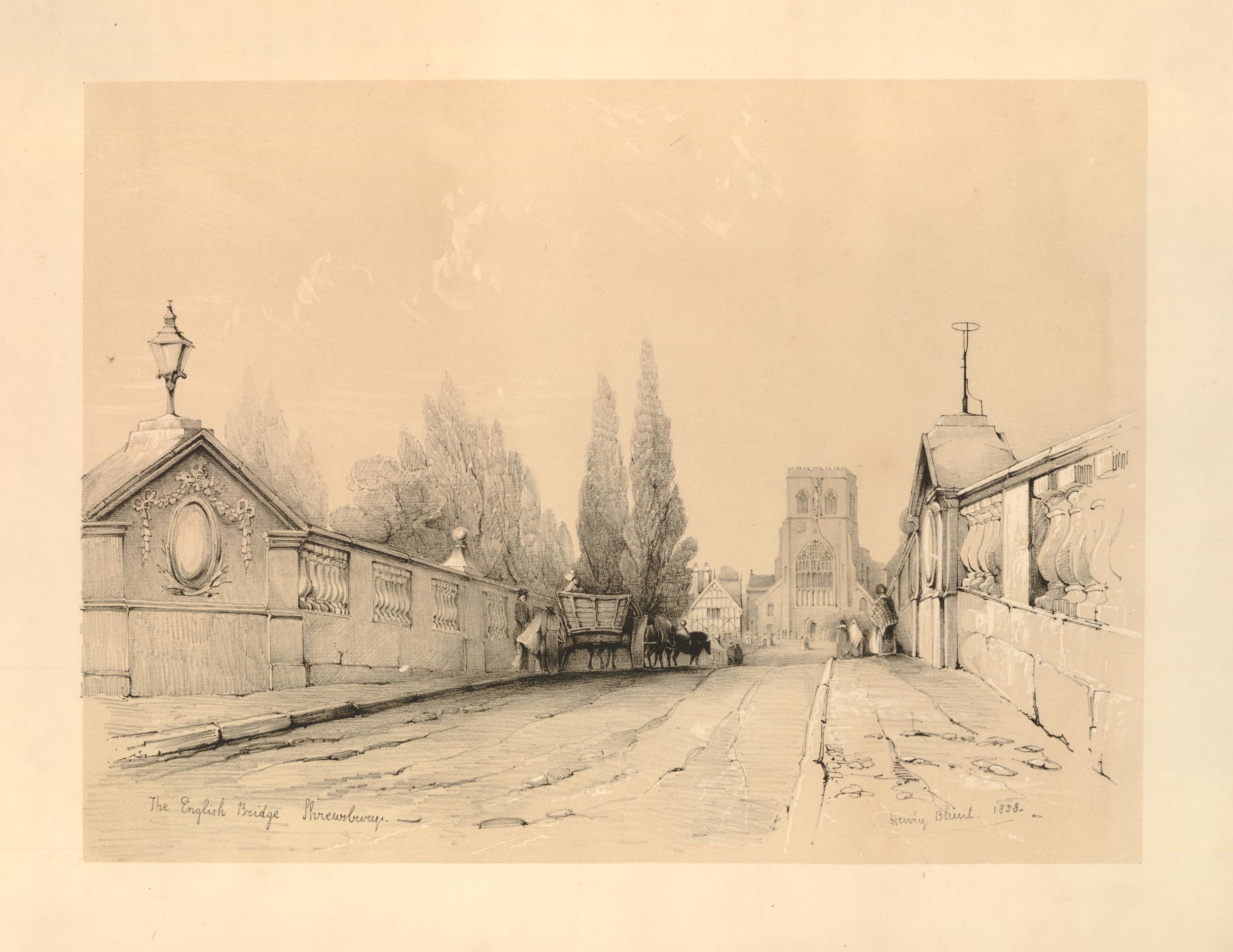 View of the English Bridge in Shrewsbury, with tower of Abbey Church of Saint Peter and Saint Paul in the background, figures on the bridge including a horse-drawn cart to the left; kept with cover of series. 1838 Lithograph on tinted stone